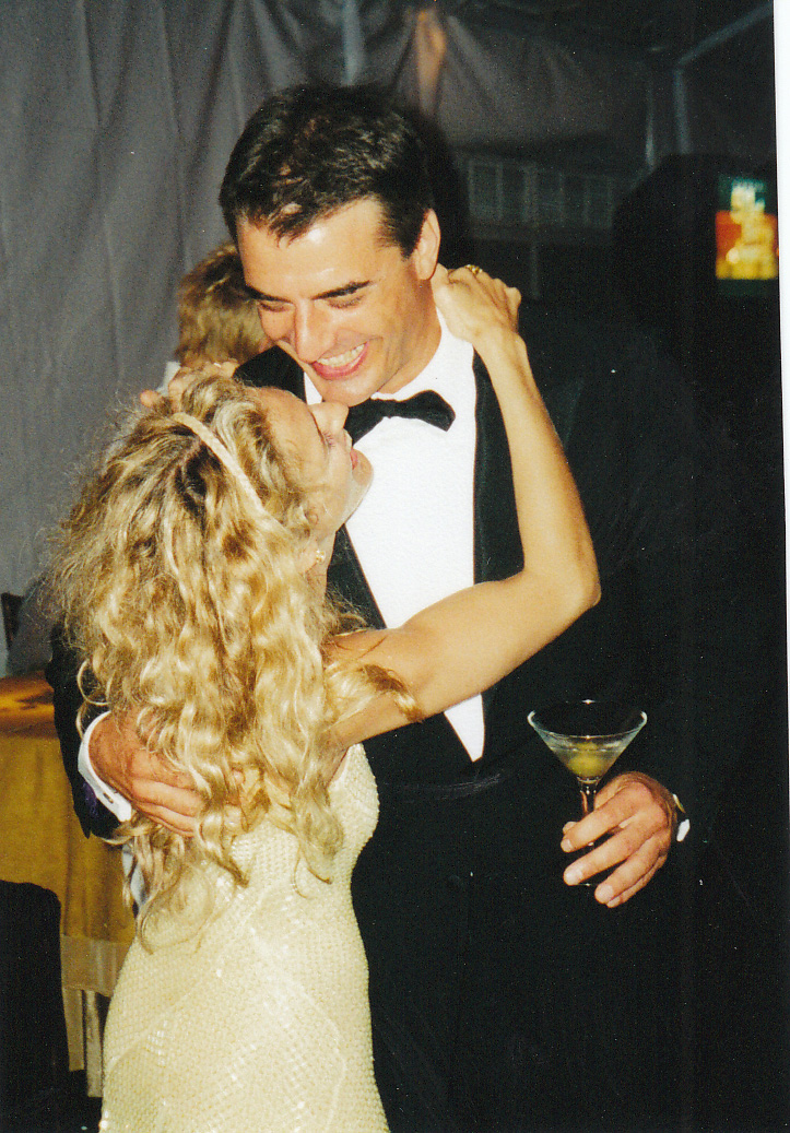 Taken at the HBO party after the 1999 Emmy Awards NOTE: Permission granted to copy, publish, broadcast or post any of my photos, but please credit "photo by Alan Light" if you can. Thanks.